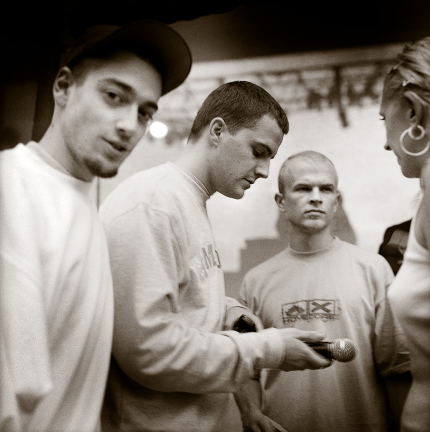 SPLASH festival 2000